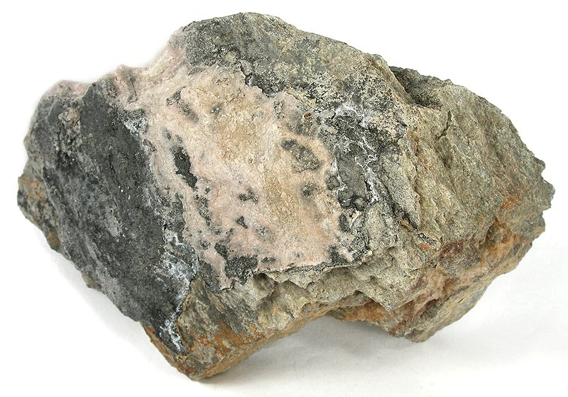 Köttigite Locality: Jáchymov (St Joachimsthal), Jáchymov (St Joachimsthal) District, Krušné Hory Mts (Erzgebirge), Karlovy Vary Region, Bohemia (Böhmen; Boehmen), Czech Republic (Locality at ) Size: 13 x 8 x 5 cm. This is a large specimen of pale pink kottigite crystals smothering a rock matrix, crystals which are rare for the locality. This long resided in the personal reference collection of Czech classics of Josef Vajdak, a rare species mineral dealer from New York, now 80 years old. Josef says this find was in the 1950s, and considered this a very good example of this rarity for the locale.